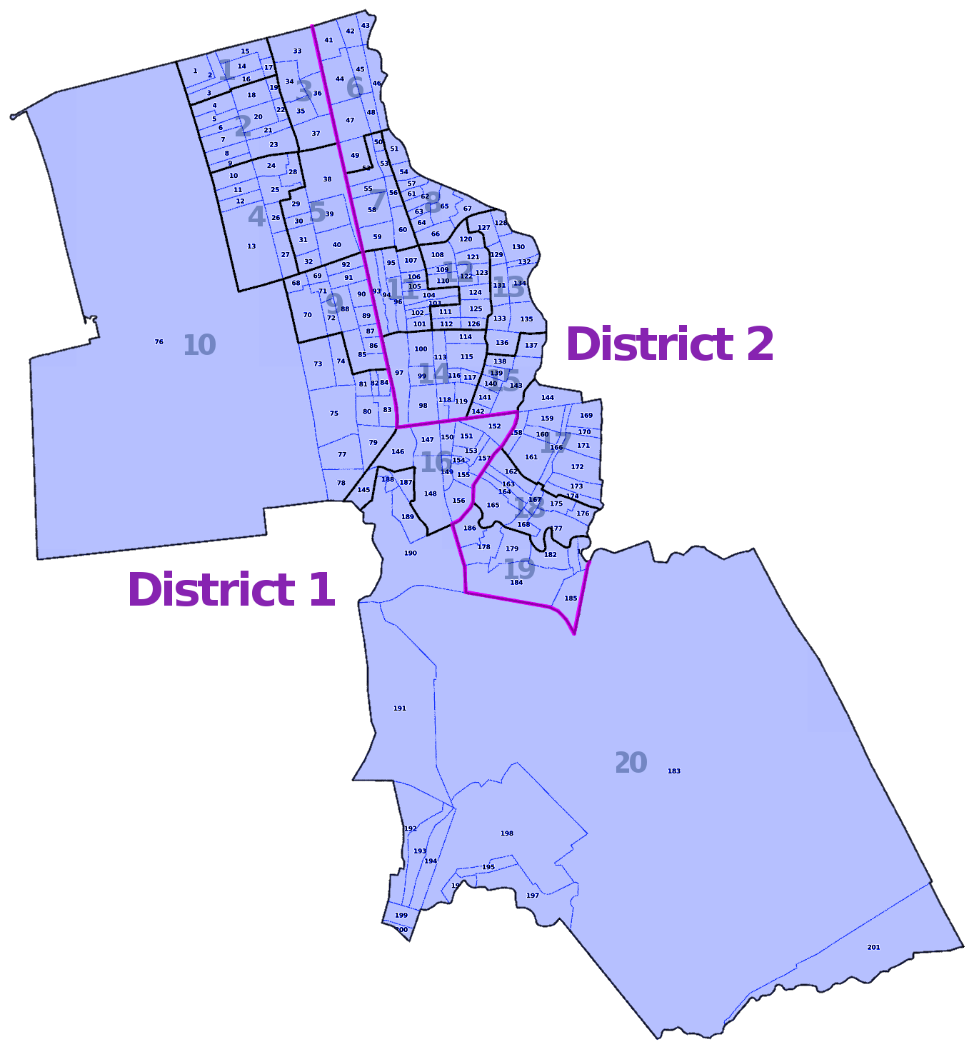 This map depicts the administrative boundaries of Pasay City's subdivisions including its 2 districts, 20 zones, and 201 barangays